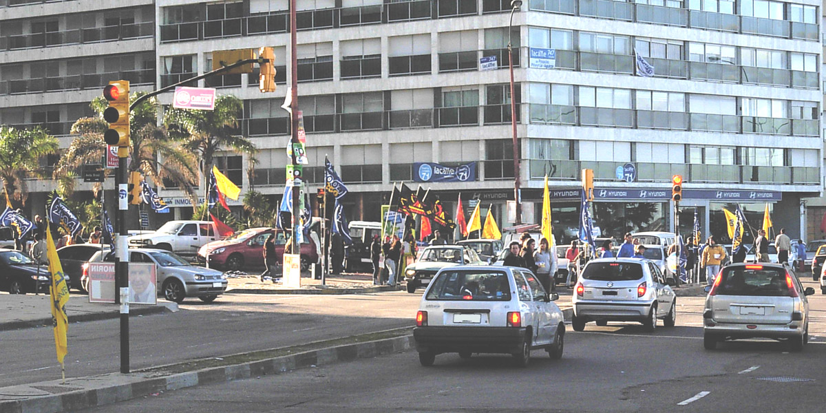 Electoral campaign in the Montevidean rambla eight days before the 2009 Uruguayan primary election.